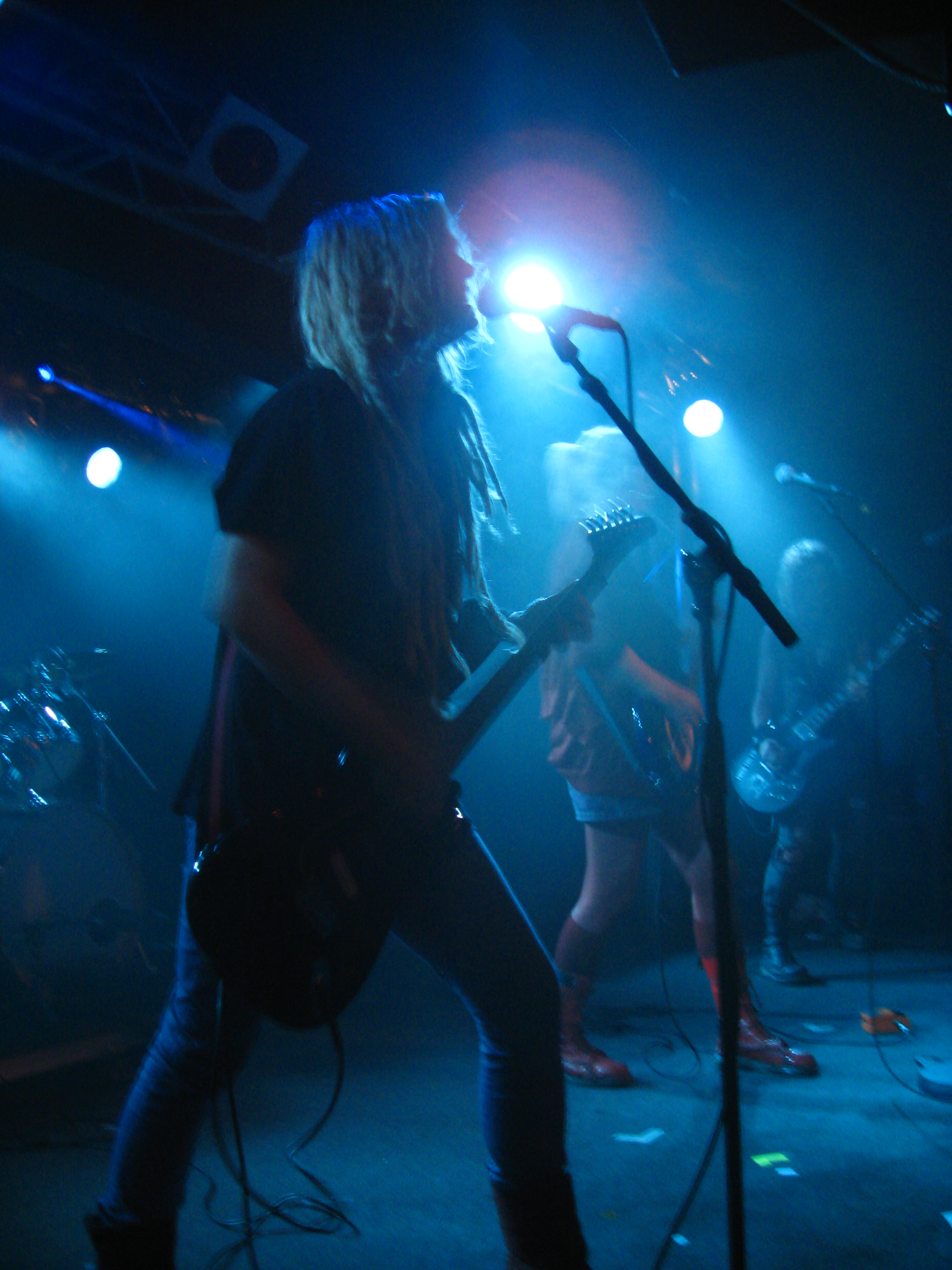 Vicious Irene playing at Tube Club at Debaser Slussen, December 1, 2008.